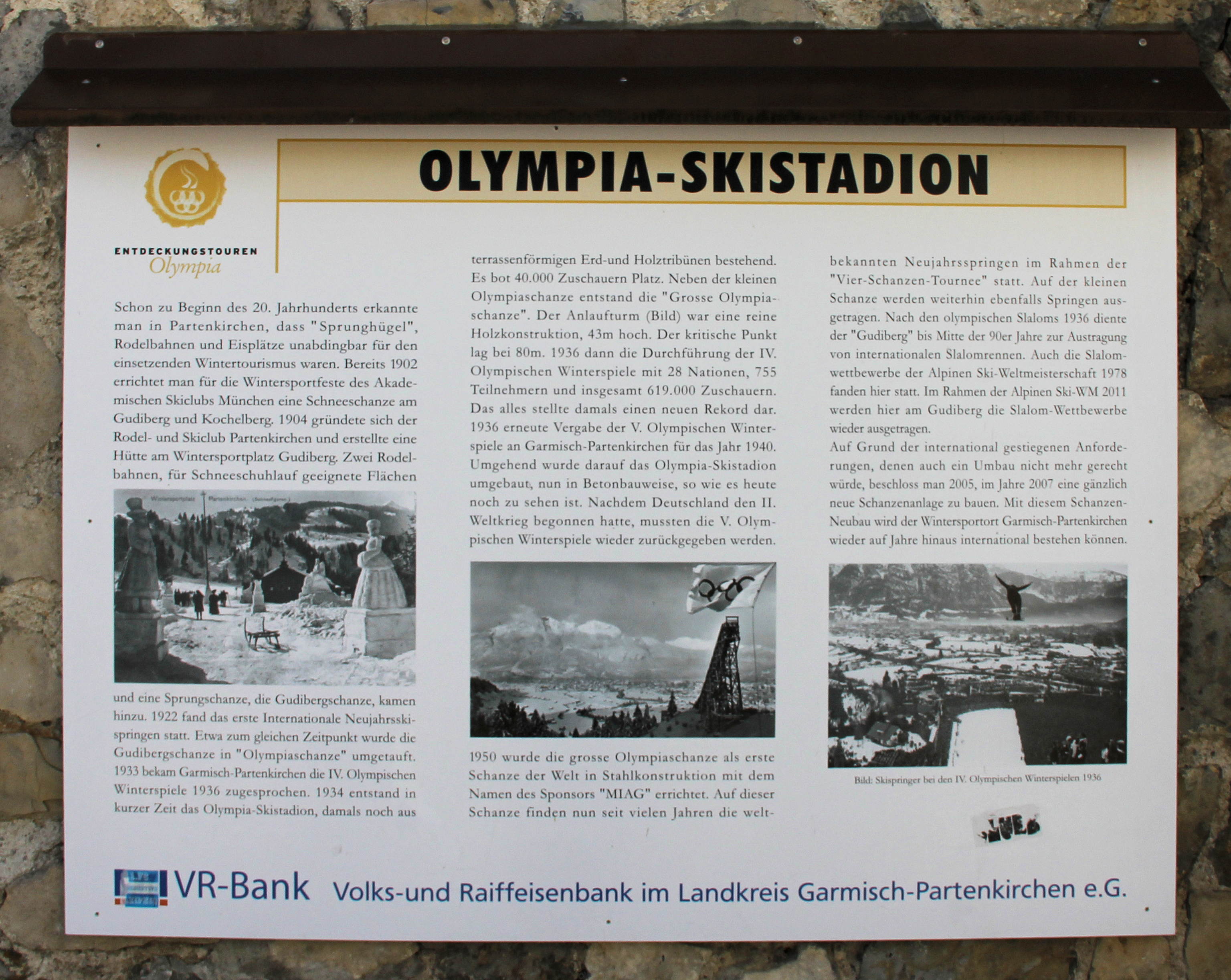 Memorial plaque, Olympia-Skistadion, Wildenauer Straße 19, Garmisch-Partenkirchen, Germany Koordinate:47°28′55″N 11°7′1″E / 47.48194°N 11.11694°E